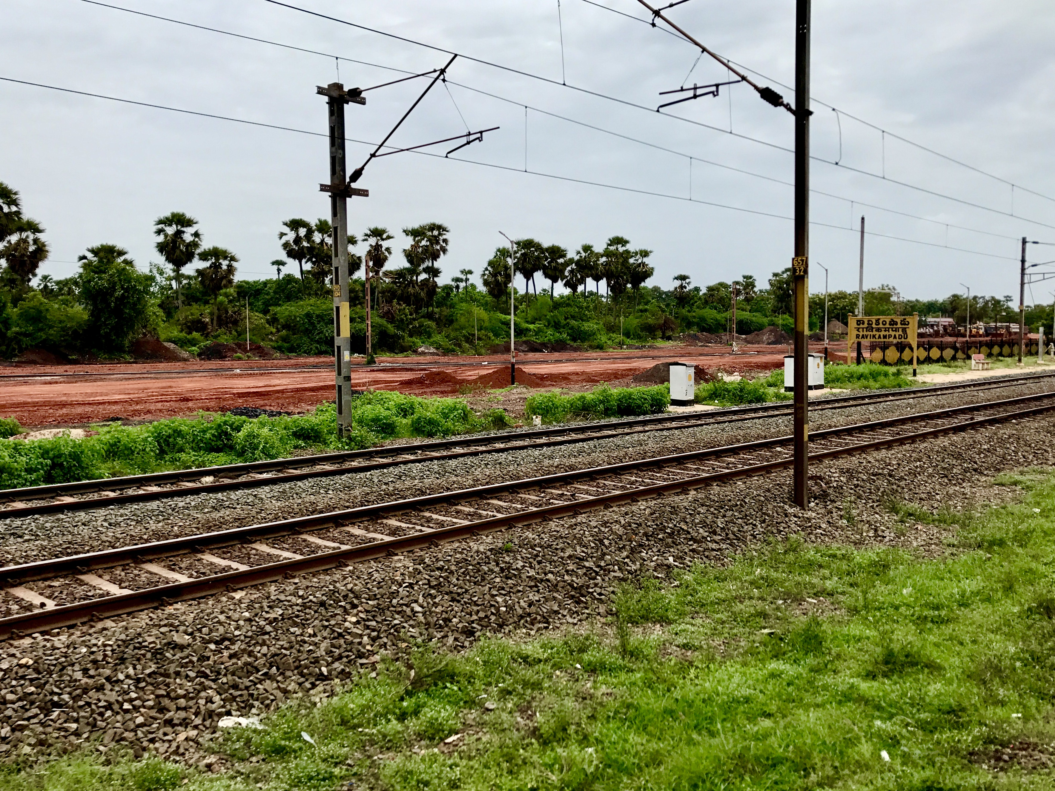 Ravikampadu railway station board